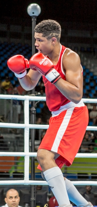 Day 3 at the 2016 Summer Olympics. Boxing 91 kg. Round of 16, Abdulkadir Abdullayev (AZE) vs Paul Omba-Biongolo (FRA)